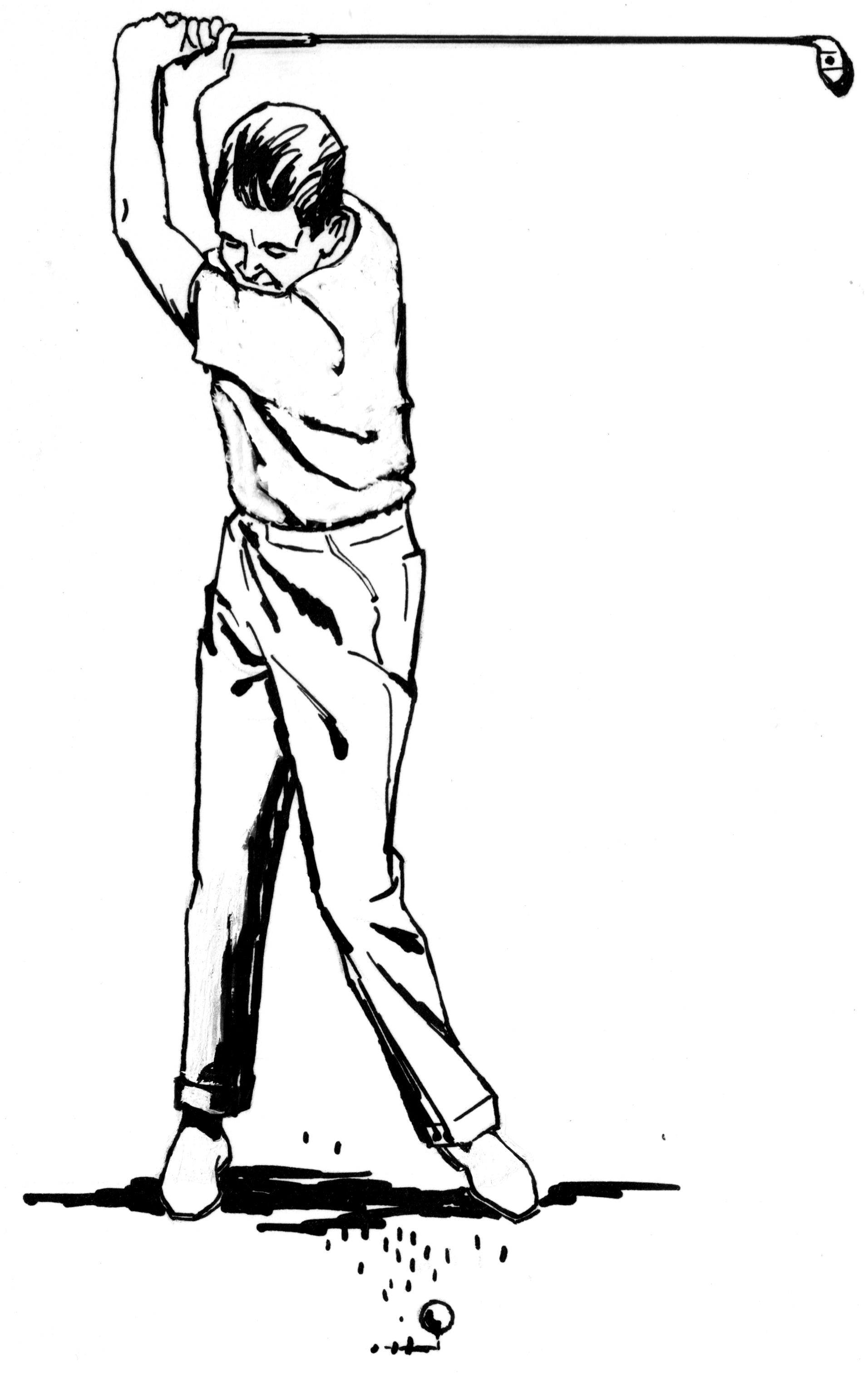 Line art drawing of golf.